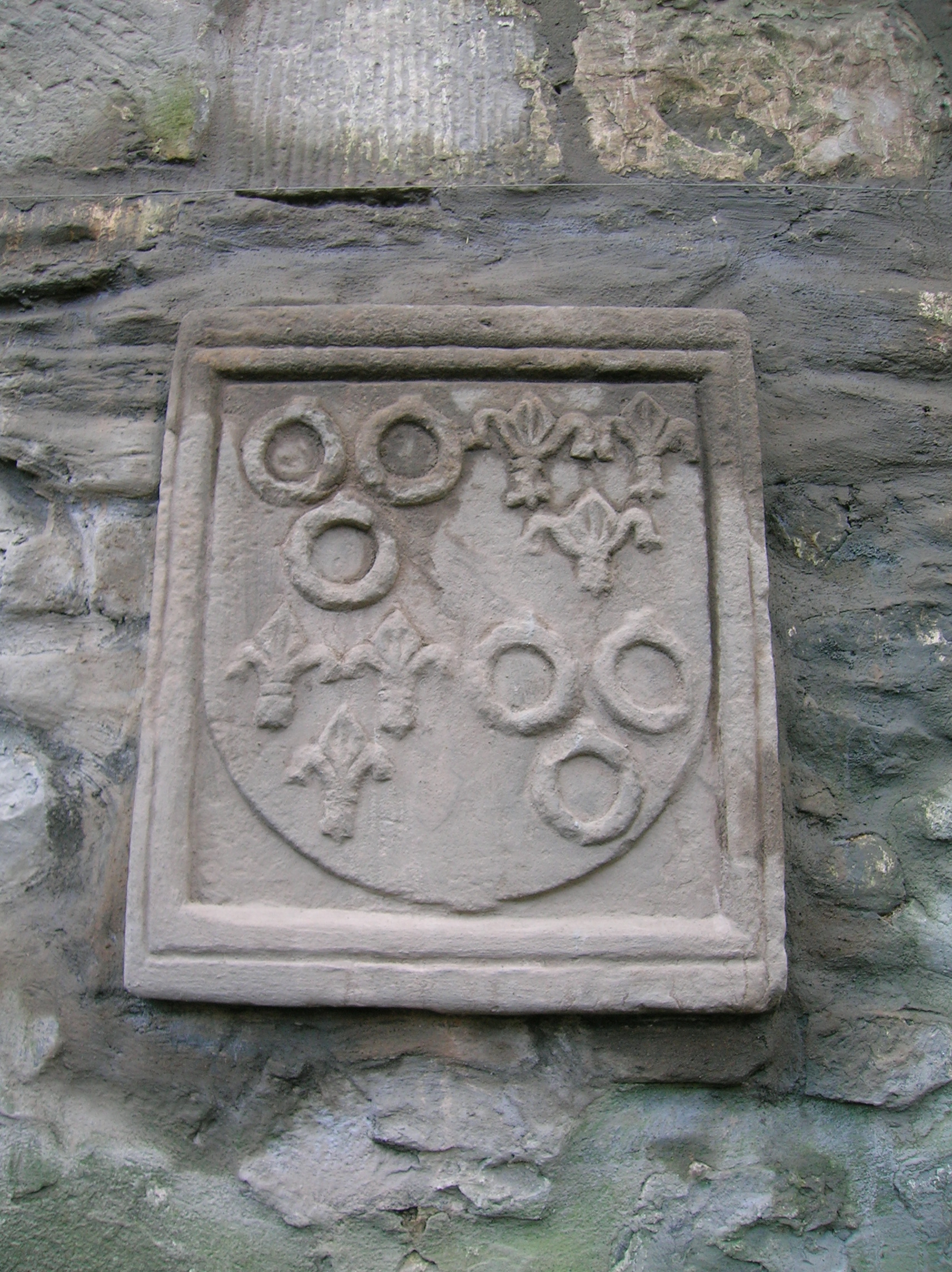 Restored coat of arms of the Montgomeries at Eglinton Country Park, North Ayrshire, Scotland